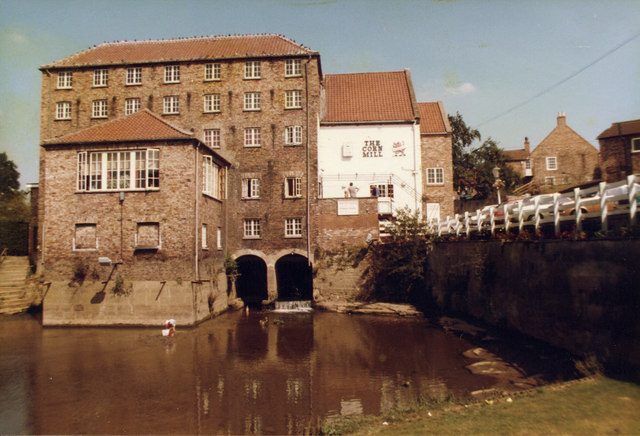 The Corn Mill Stamford Bridge, East Riding of Yorkshire, England.The former Corn Mill as a restaurant.